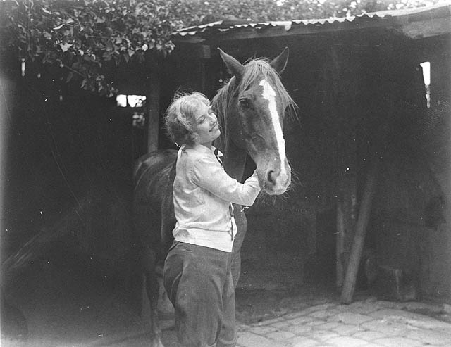 A picture taken of Eva Novak on the set of The Romance of Runnibede (1928) during her stay in Australia.